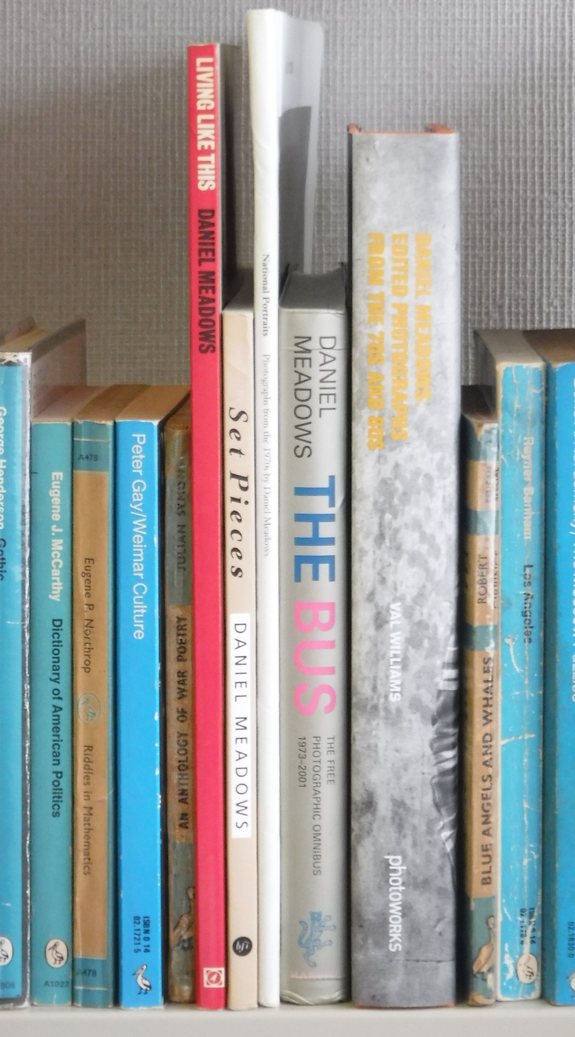 Five photobooks by Daniel Meadows (flanked by irrelevant Pelicans)